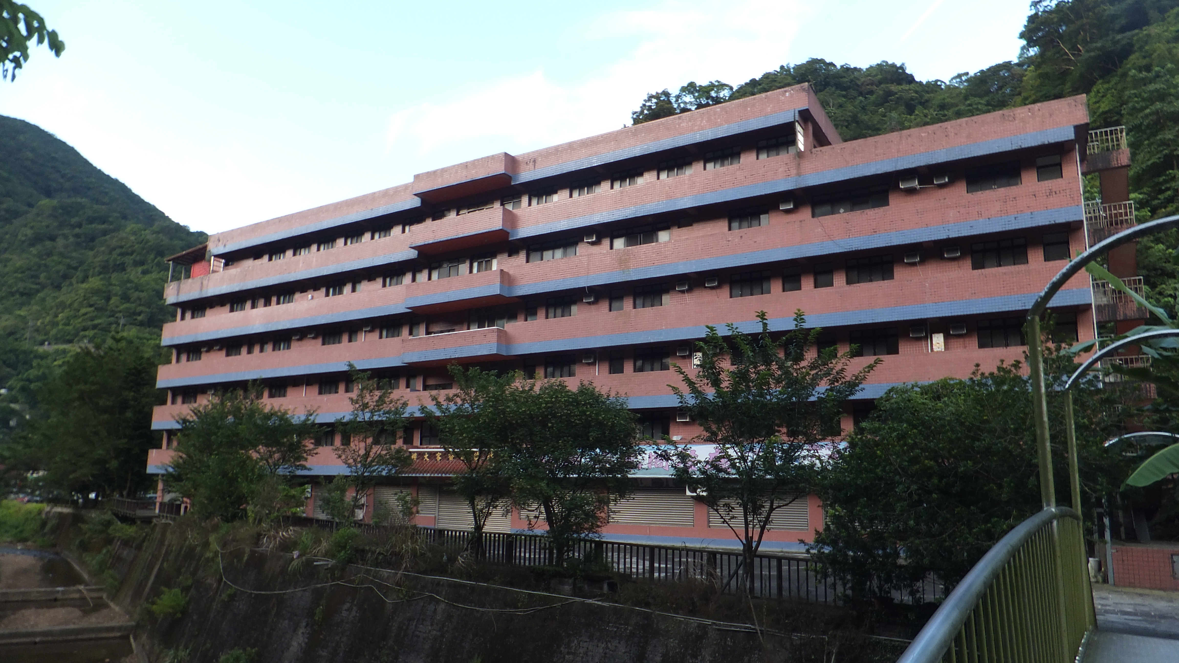 Shihding Guniang Temple Visitors' Lodge.